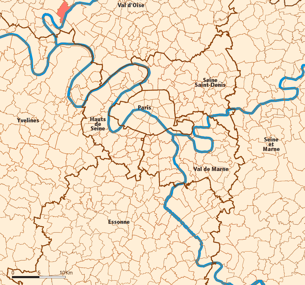 Created map myself.